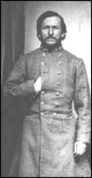 Brigadier General Leroy Augustus Stafford Sr. Found on [1] HyperText Transfer Protocol